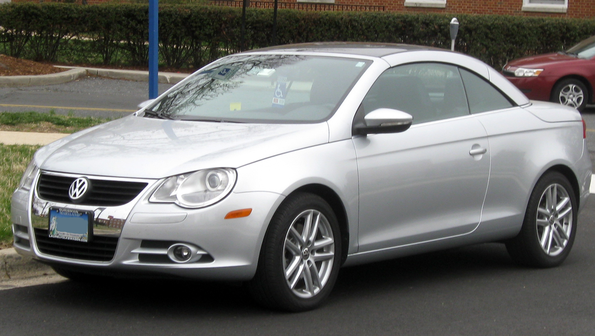 2007-2011 Volkswagen Eos photographed in College Park, Maryland, USA.